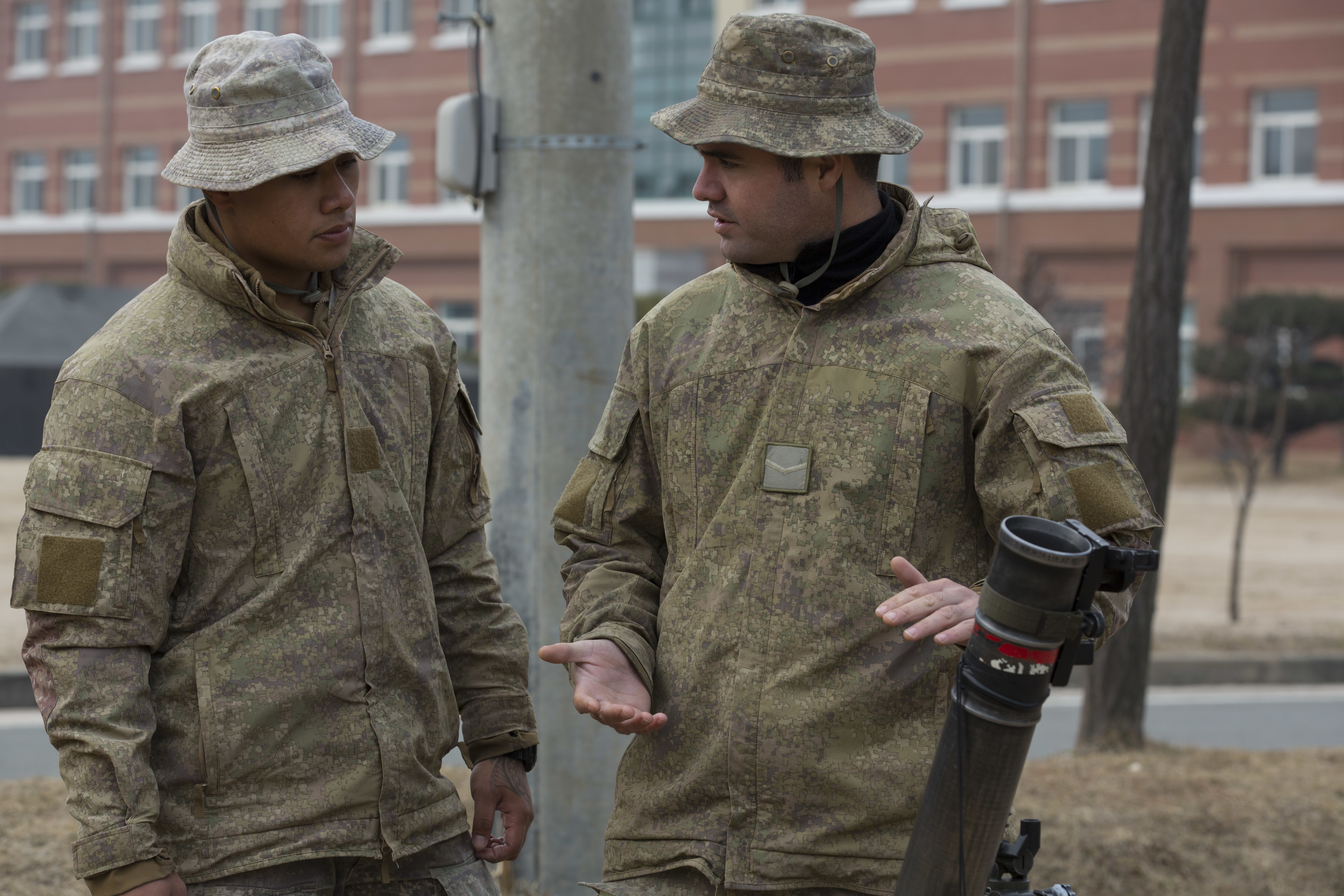 Royal New Zealand Soldiers with 161 Artillery Battalion, train and prepare for exercise SSang Yong in the Pohang Republic of Korea (ROK) Marine base, South Korea, Feb. 26, 2016. Exercise Ssang Yong 2016 is a biennial military exercise focused on strengthening the amphibious landing capabilities of the Republic of Korea, the U.S., New Zealand and Australia. (U.S. Marine Corps photo by MCIPAC Combat Camera Cpl. Allison Lotz/Released) Unit: III Marine Expeditionary Force / Marine Corps Installations Pacific